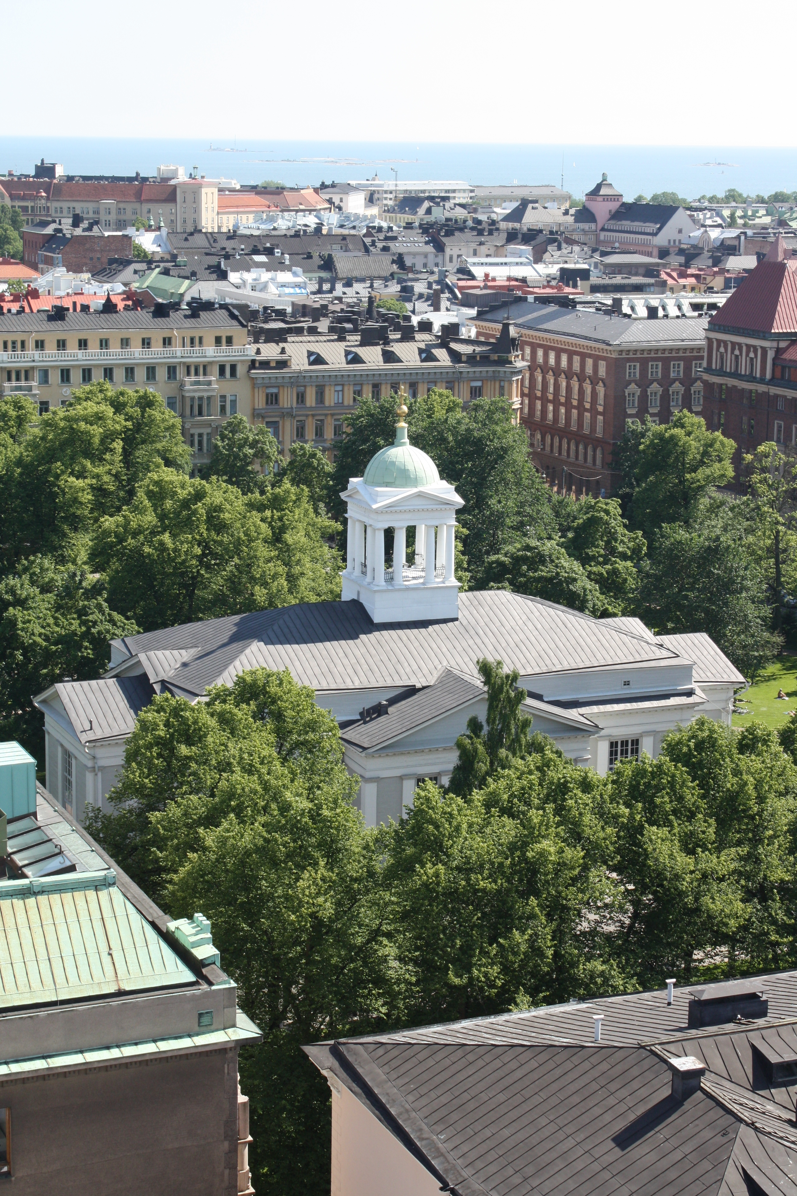 Helsinki Old Church as seen from Hotel Torni.